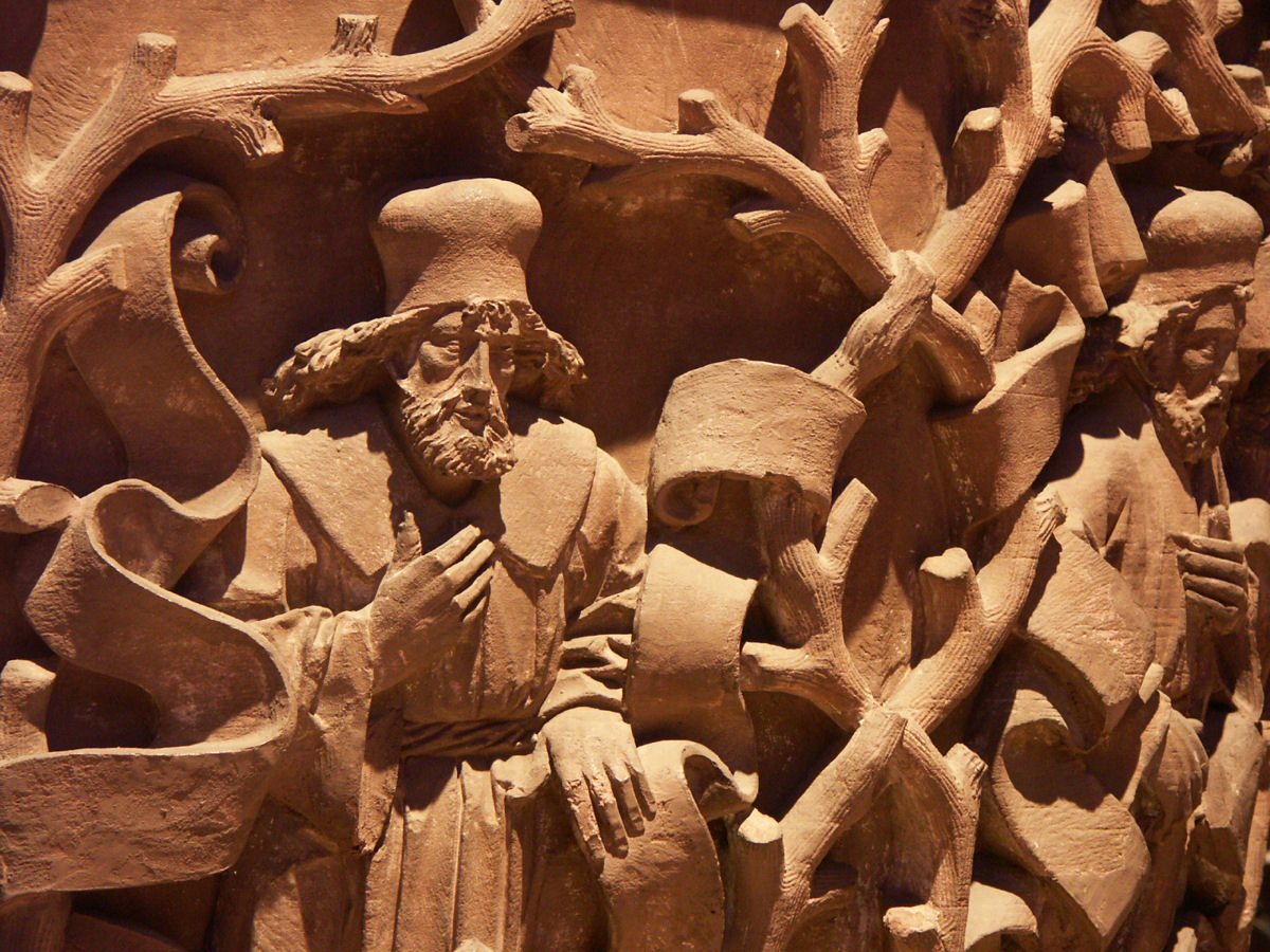 Cathedral St. Peter (Dom St. Peter), Worms, Germany - Baptismal font (Detail)